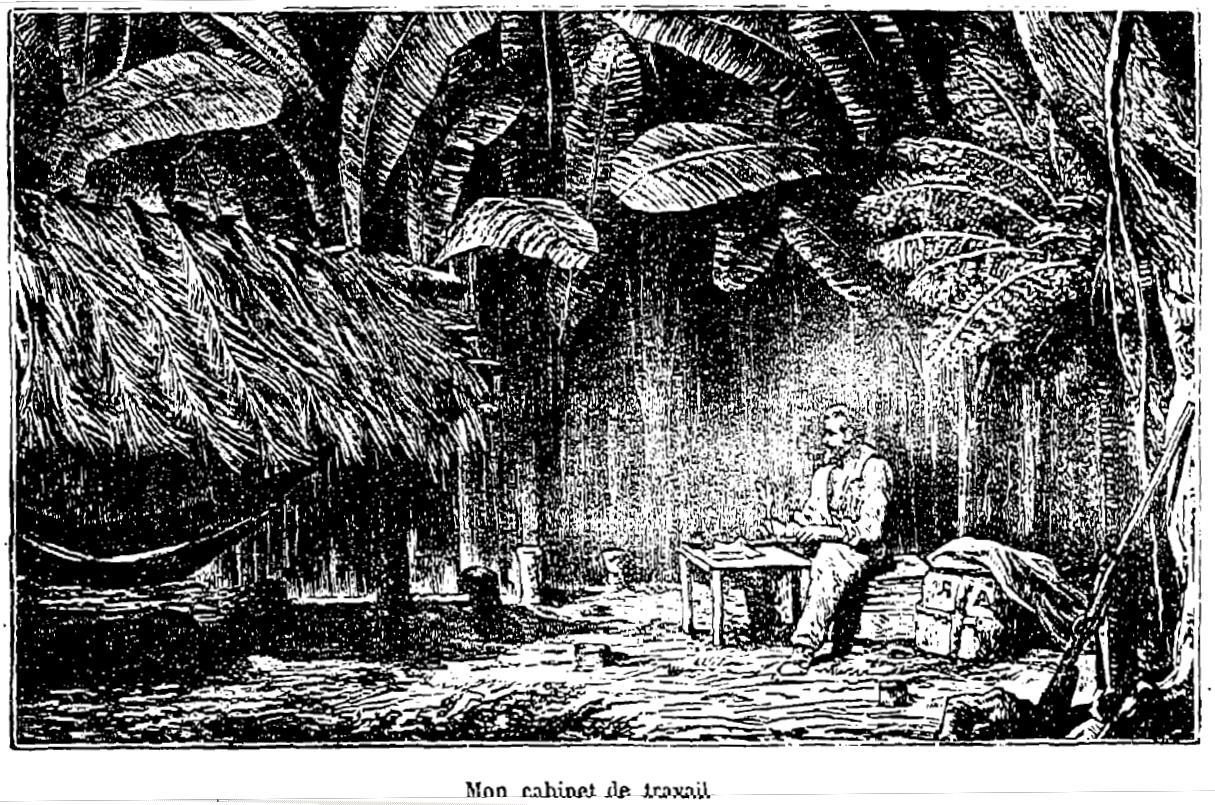 Armand Reclus in his "jungle´s cabinet". Panama.